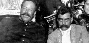 Emiliano Zapata and Pancho Villa during the Mexican RevolutionVilla is sitting in the presidential throne in the Palacio Nacional